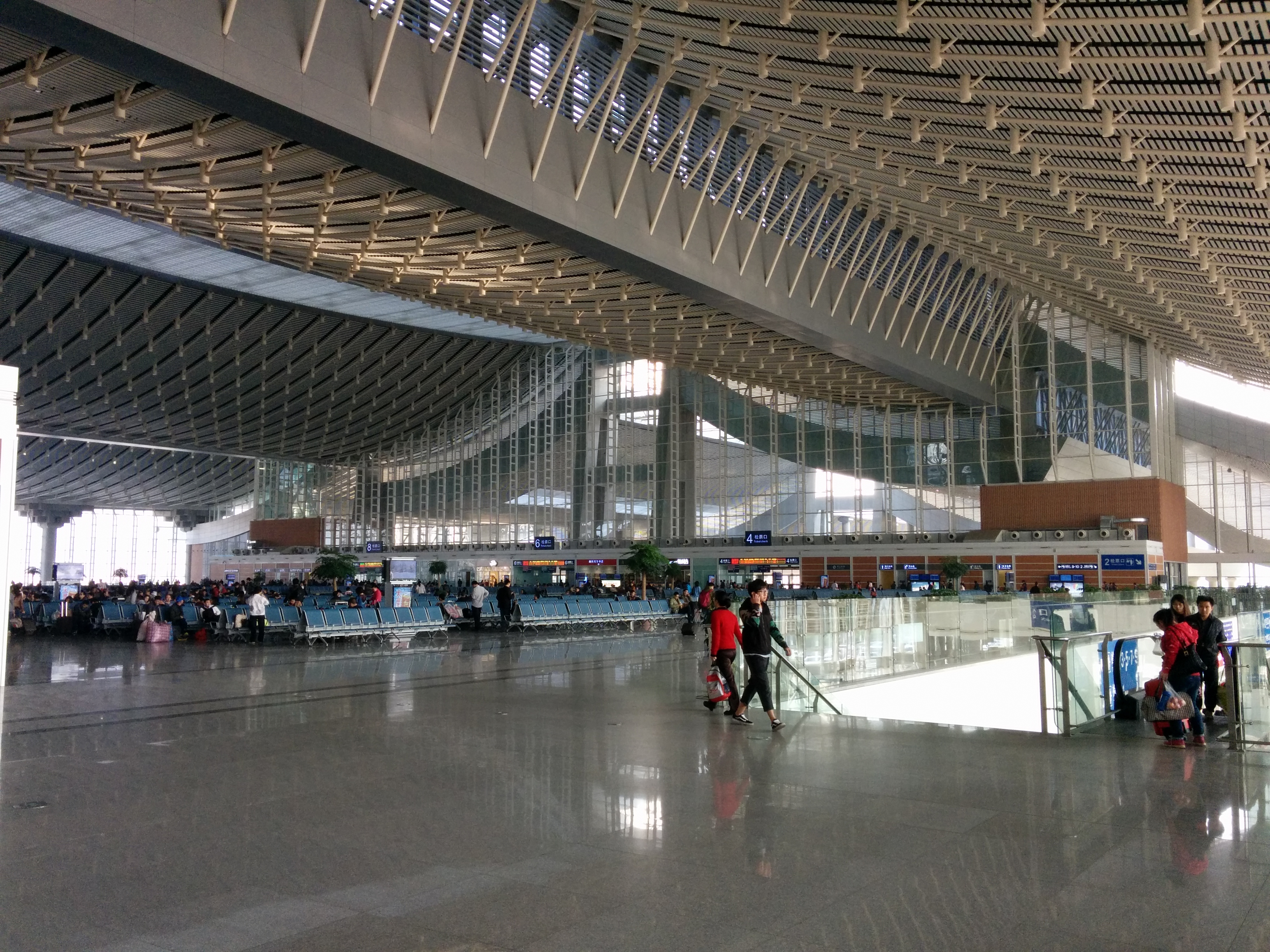 The large departure hall of the Xiamen North Railway Station.